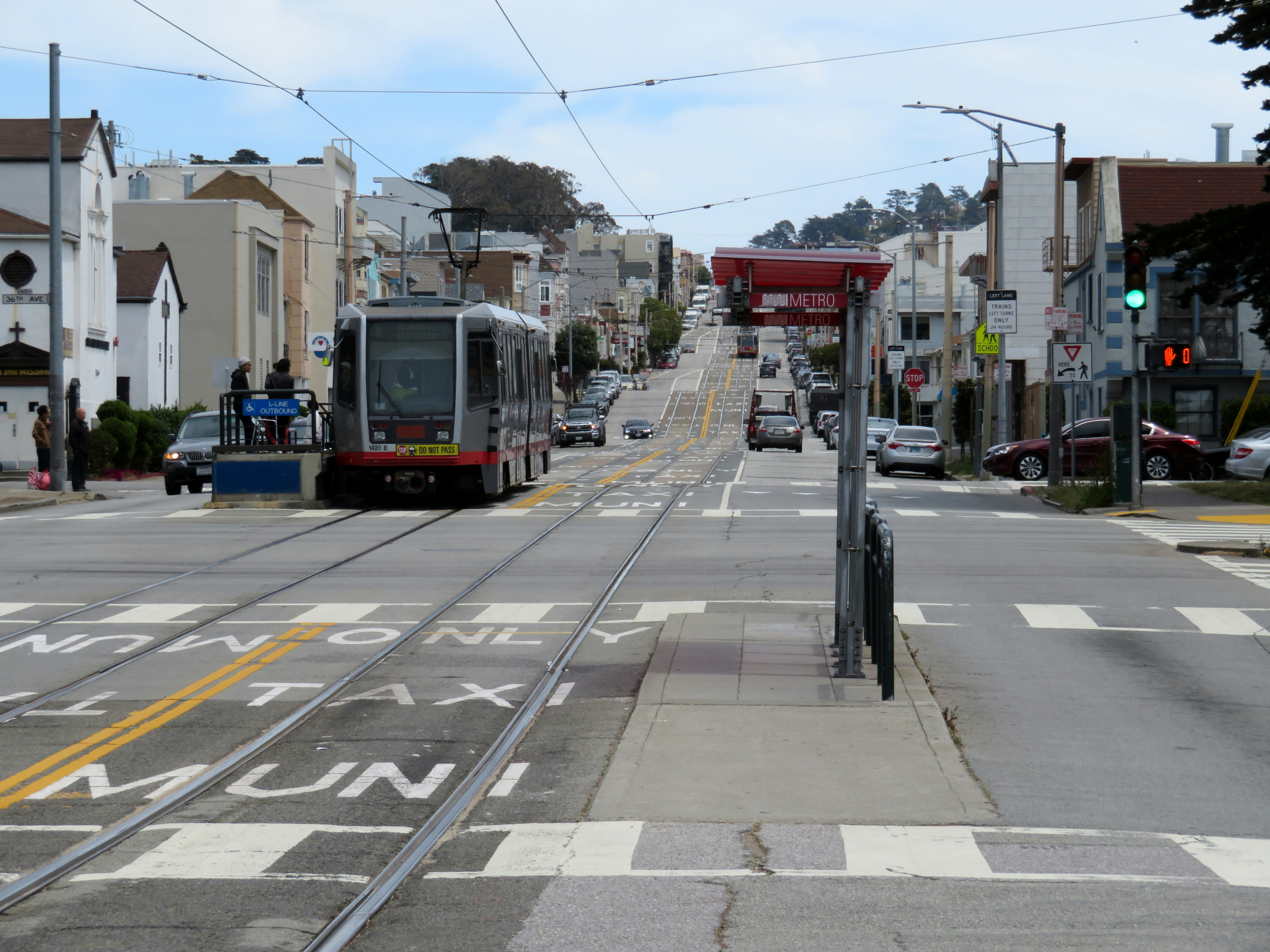 Outbound train at Taraval and Sunset in May 2018